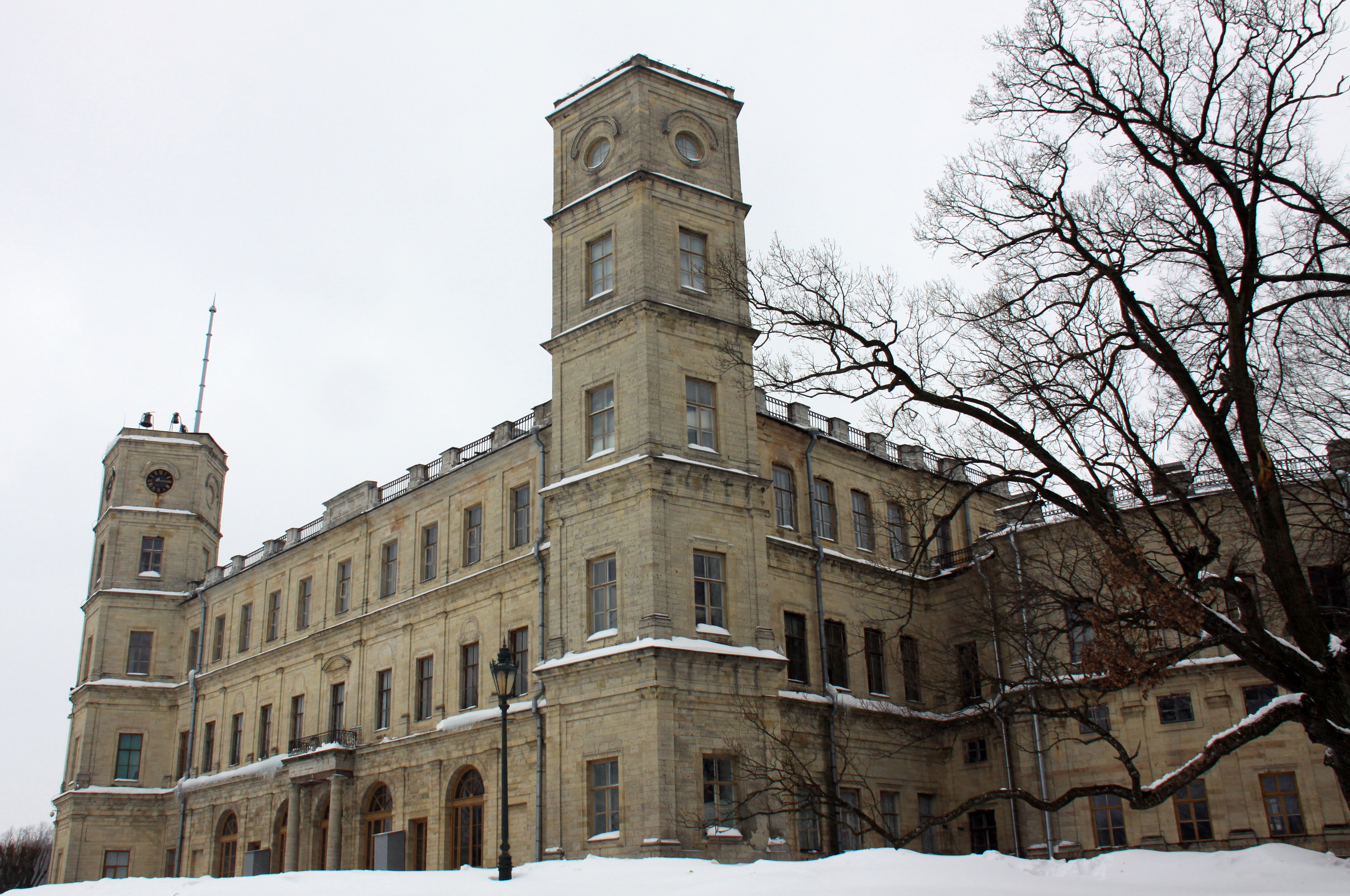 Gatchina Palace near Saint Petersburg